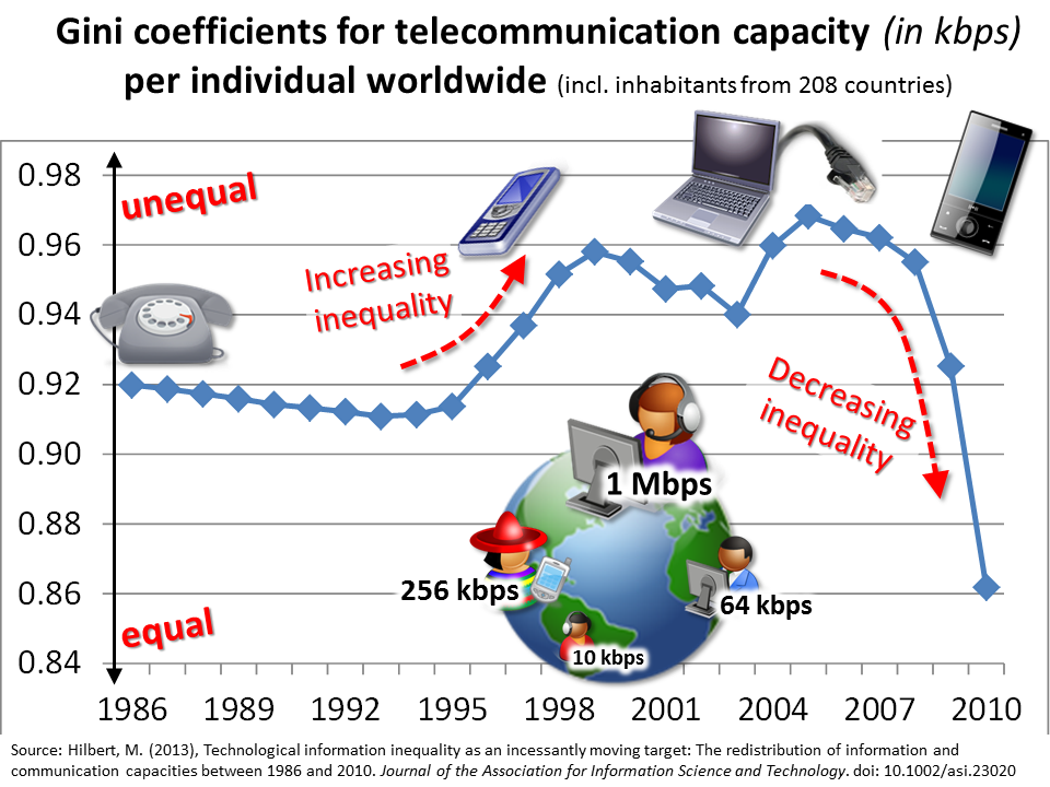 Gini coefficients for telecommunication capacity (in kbps) among individuals worldwide [1]